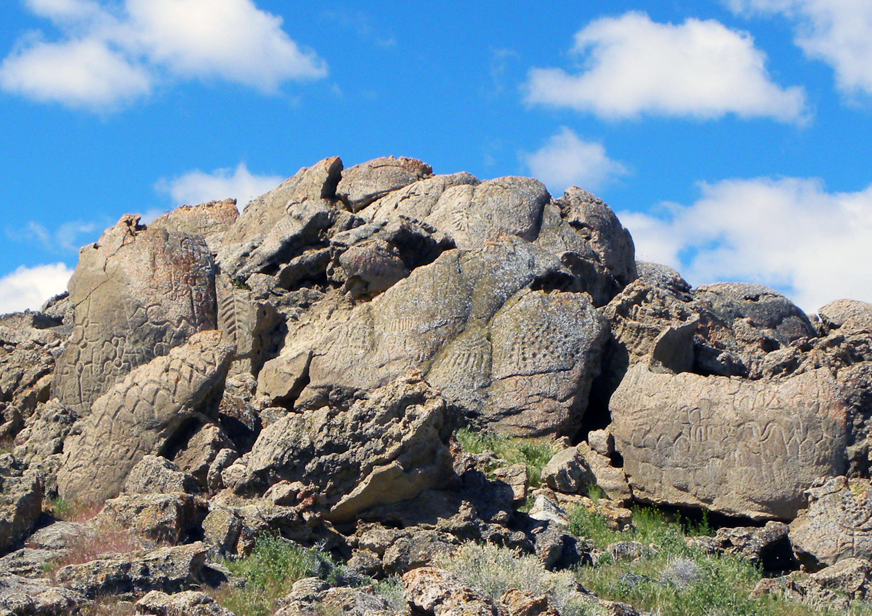 Winnemucca Lake, NV, USA. Petroglyphs were carved into the tufa structures by prehistoric Native Americans. Radiocarbon dating of tufa laysrs covering the petroglyphs in 2013 showed these to be the oldest known petroglyphs in the Americas. Formal designation: archaeological site 26 Wa 3329, Scale: The tree shaped petroglyph at the left side is aprox. 70cm long, Dating: between 11.300 and 10.500 calibrated years B.P.